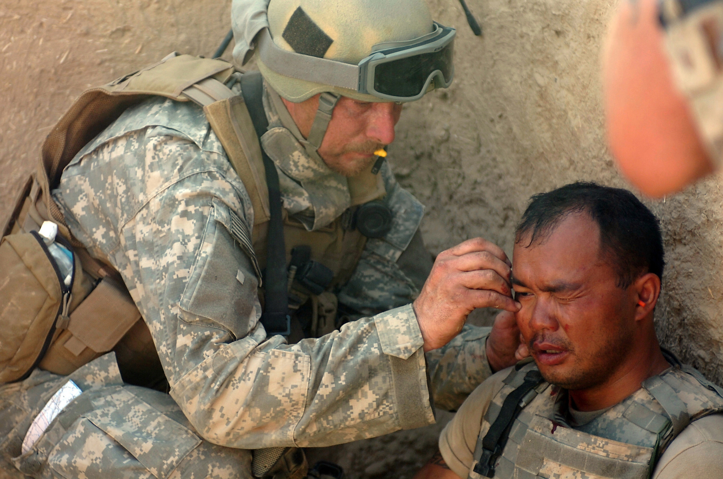 A Special Forces team medic assigned to the Combined Joint Special Operations Task Force- Afghanistan treats another U.S. Army Soldier for shrapnel wounds from a rocket-propelled grenade explosion while battling Taliban fighters in the Sangin District area of Helmand Province, Afghanistan, April 10, 2007. The Soldier continued fighting minutes after he was treated.